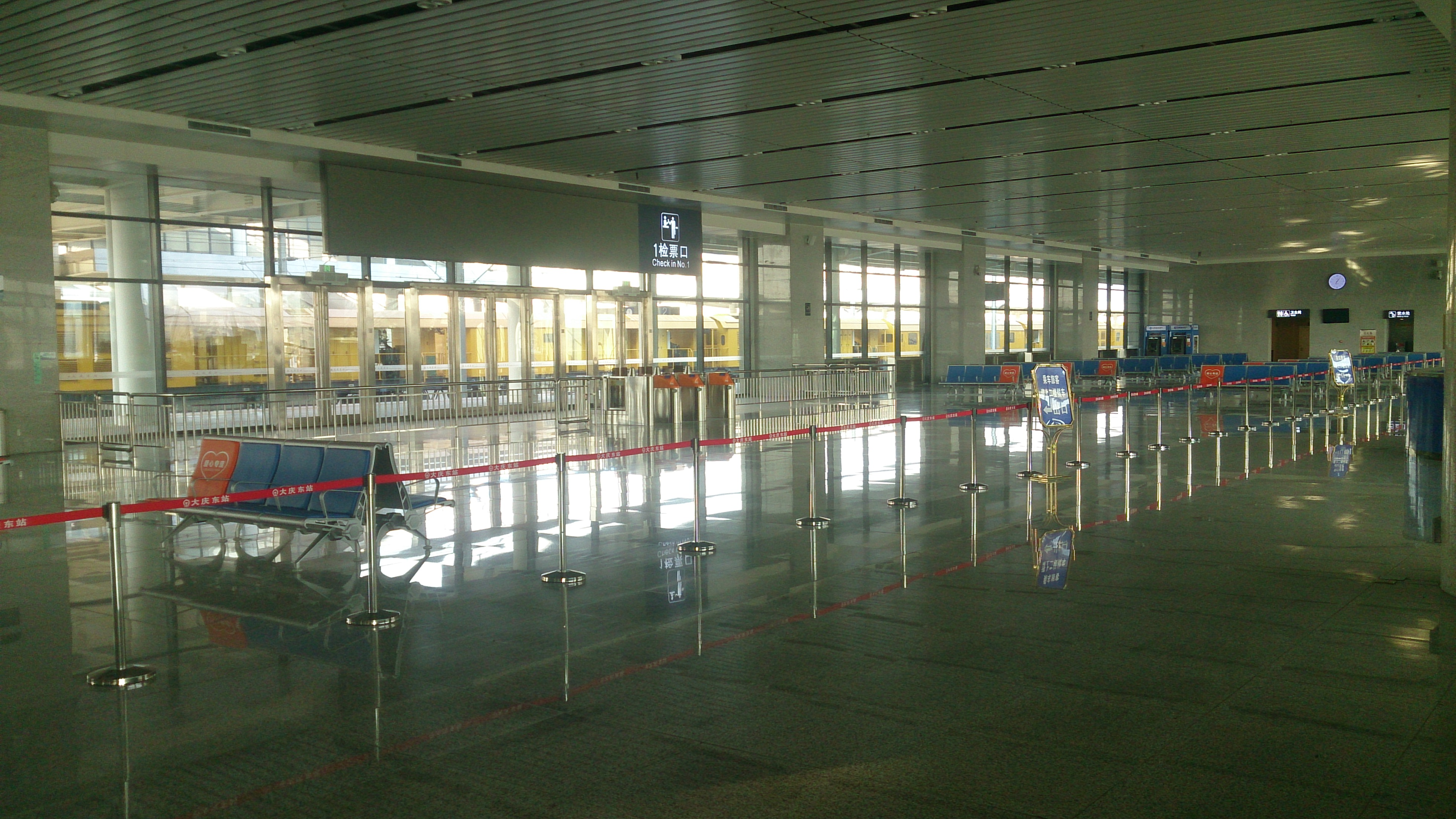 Waiting Room at Daqing East Railway Station